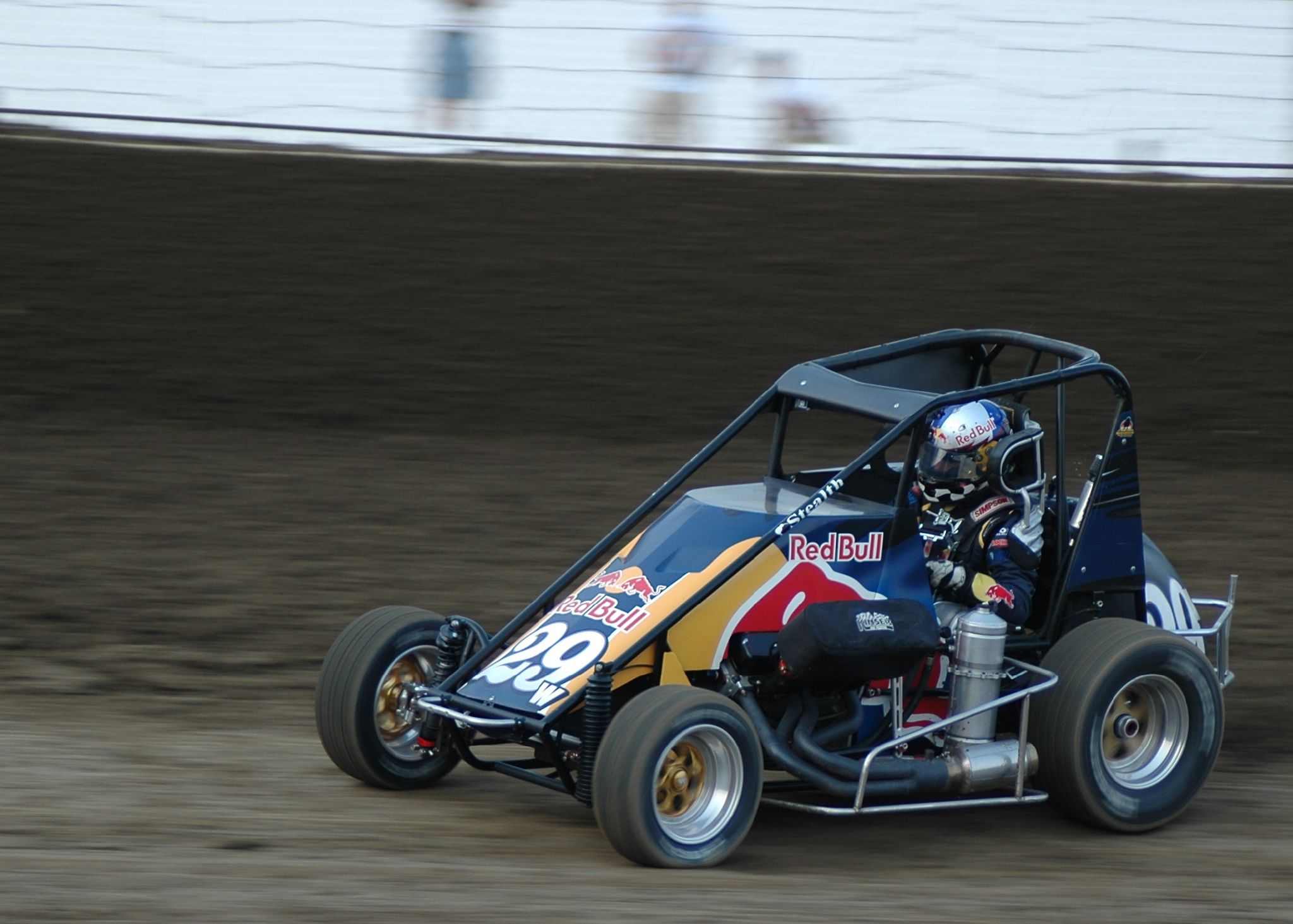 Cole Whitt in his midget car at Kokomo, Indiana on May 24, 2007.